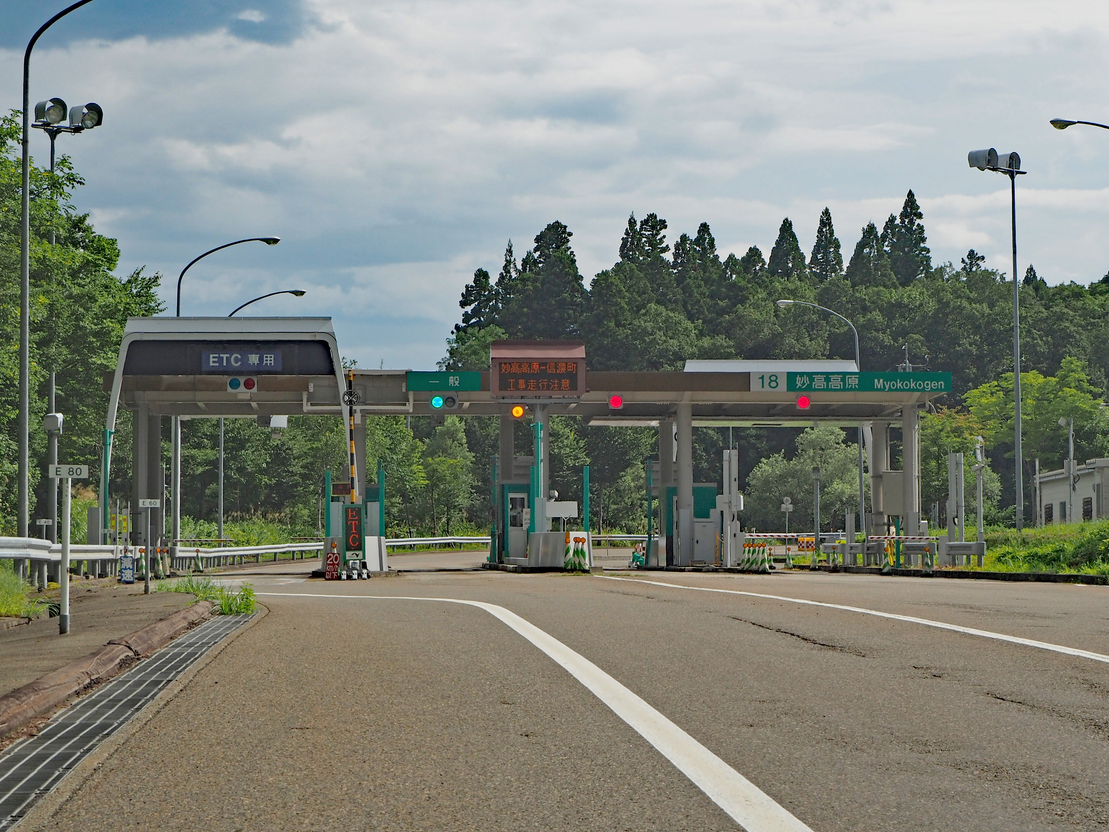 Myokokogen Interchange